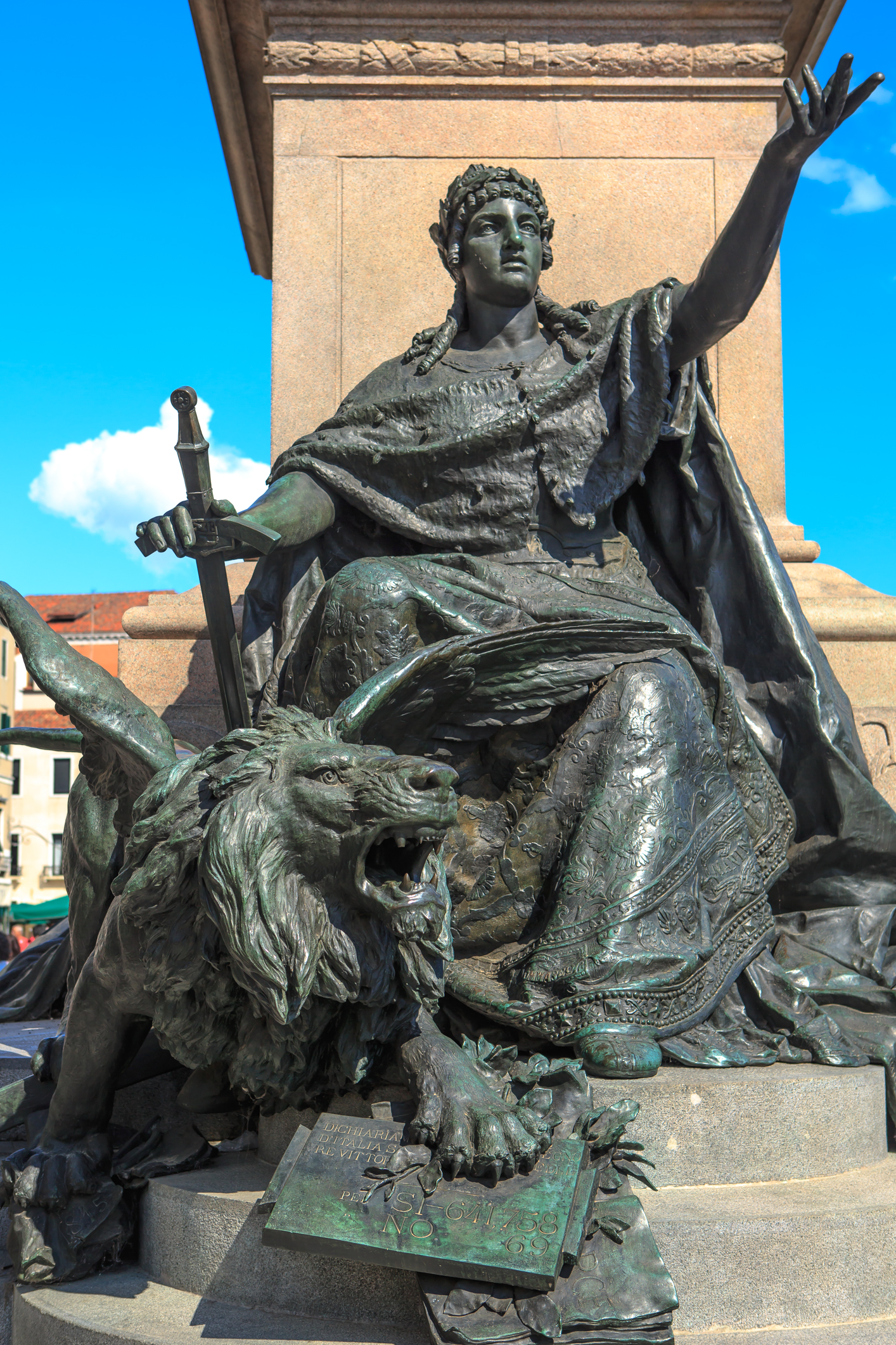 Venice city scenes...Victor Emmanuel II Monument